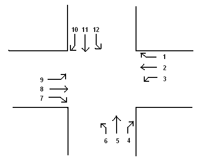 Diagram of Dutch intersection numberings.